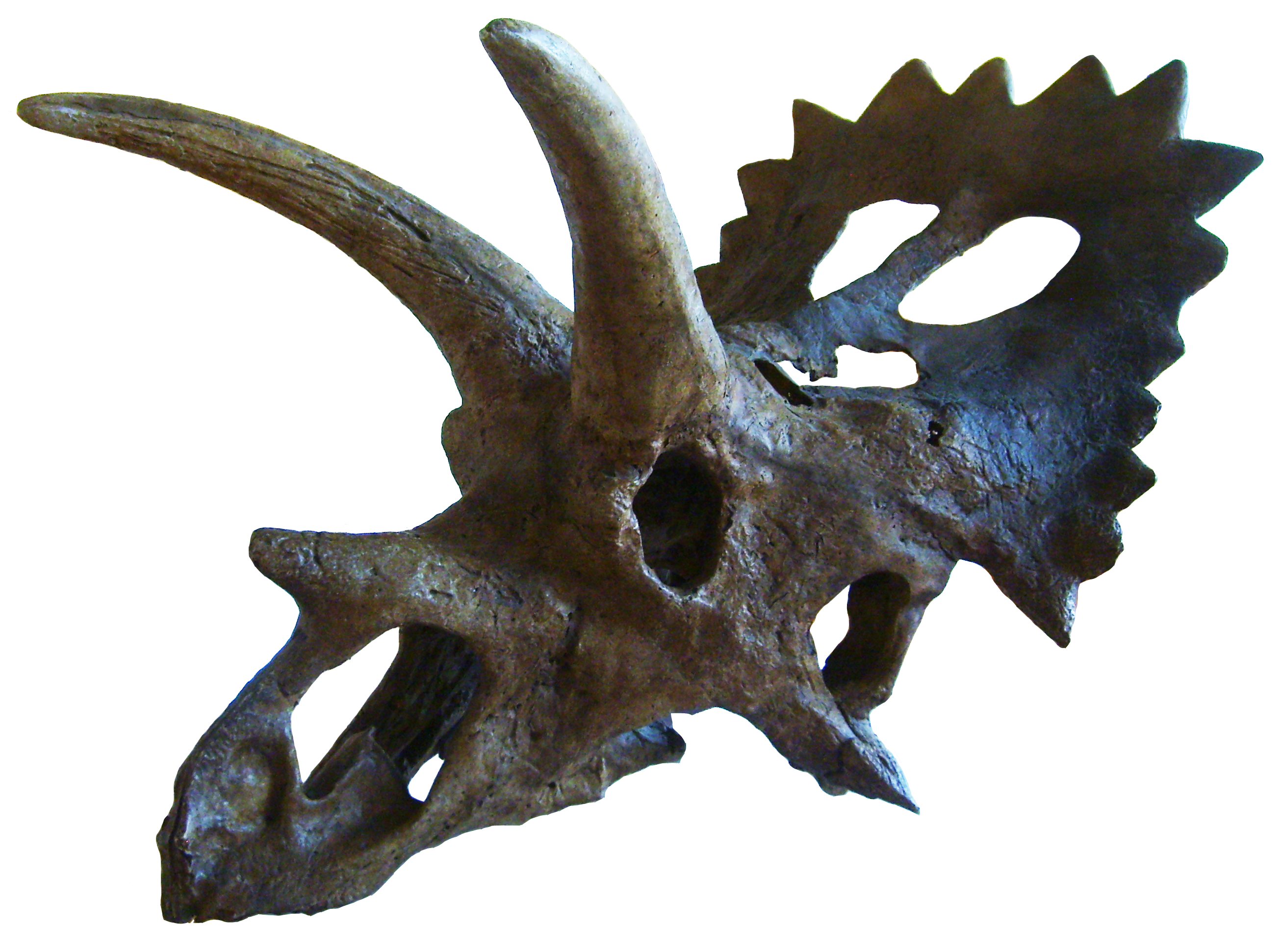 Anchiceratops skull cast at the Geological Museum in Copenhagen.